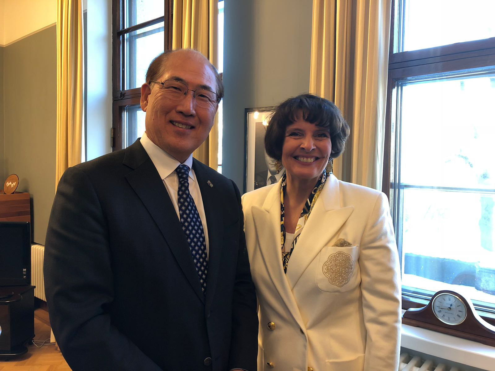 IMO Secretary-General Kitack Lim meets H.E. Ms Anne Berner, Minister of Transport and Communications of Finland.